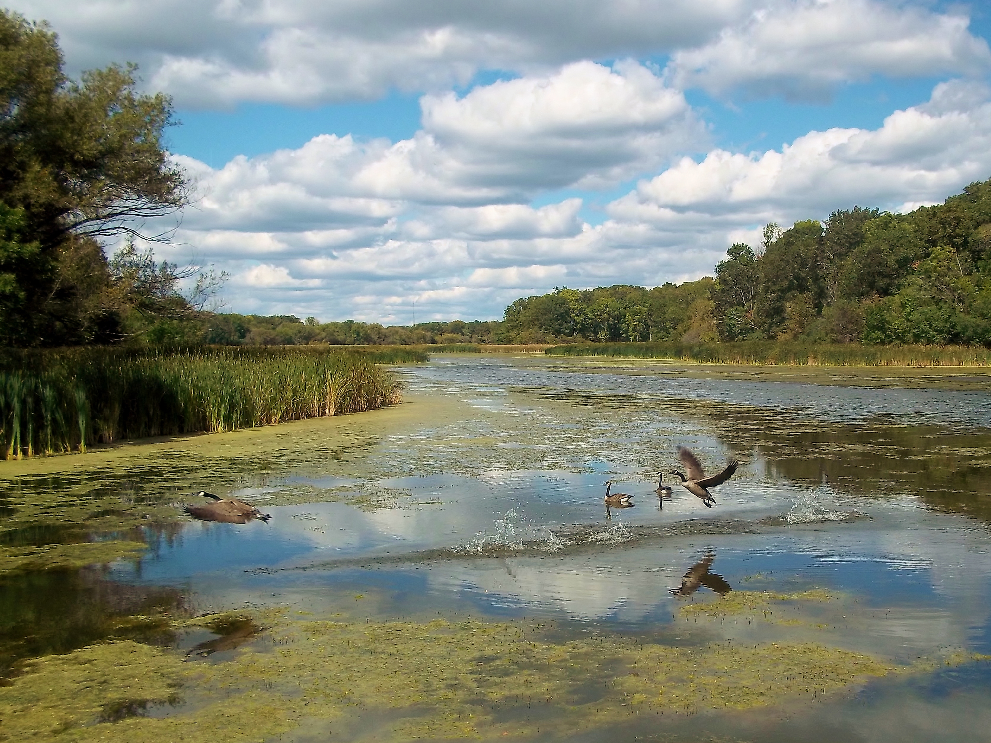 Canadian Geese on Salt Creek near Busse Forest Natural National Landmark - Cook County, Illinois. Located in the Ned Brown Forest Preserve